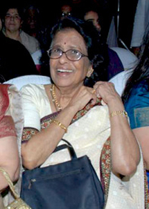 Usha Mangeshkar and Meena Mangeshkar-Khadikar at the event when their sister Lata Mangeshkar was honoured with "Insignia of Officer de la Legion d'Honneur"